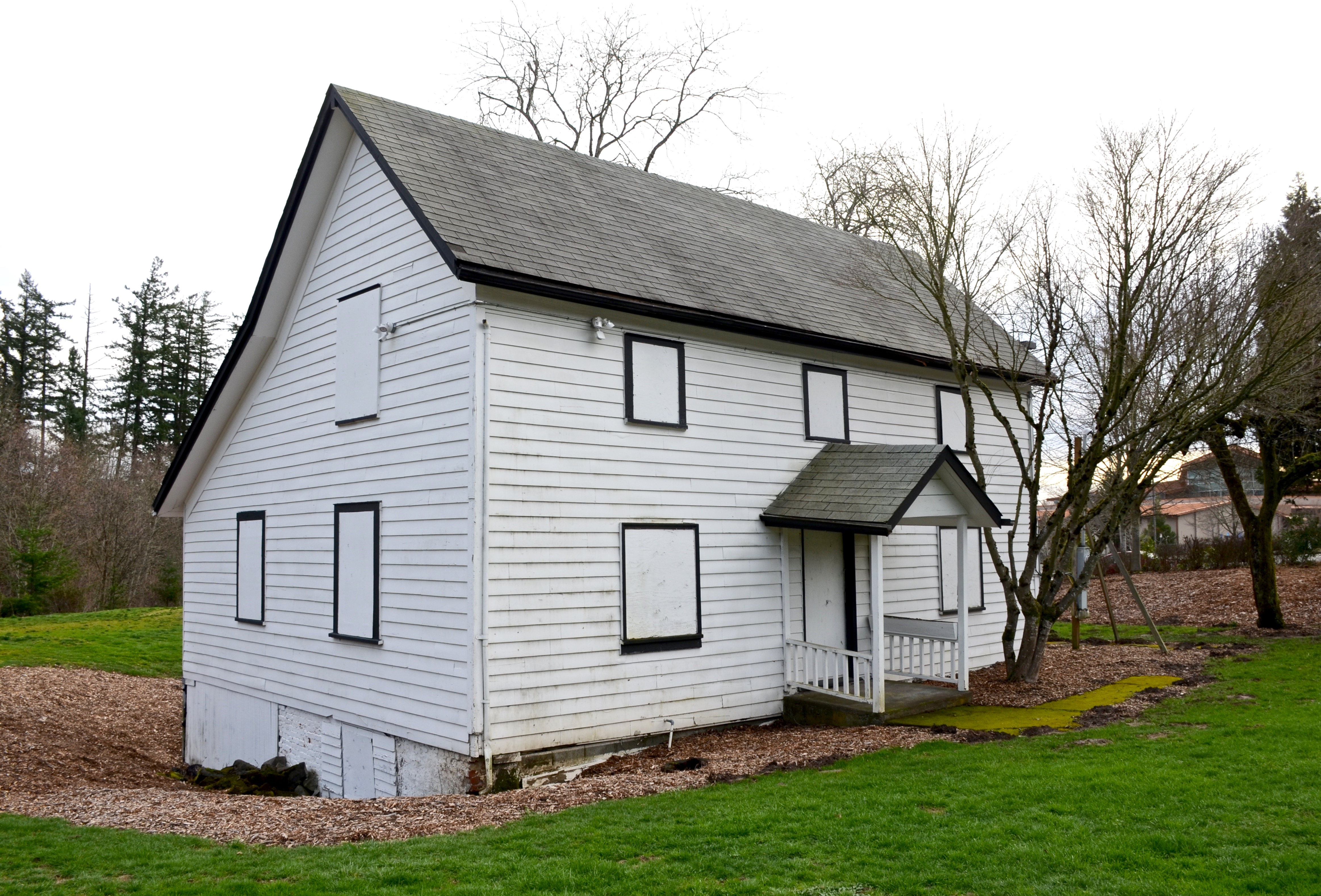 The historic John Quincy Adams and Elizabeth Young House (built 1869), located at 12050 Northwest Cornell Road in the unincorporated community of Cedar Mill, Oregon (west of Portland), is listed on the U.S. National Register of Historic Places. The Tualatin Hills Park & Recreation District owns the house, and hopes to restore it when and if funds become available. This view is of the house's east side and front.